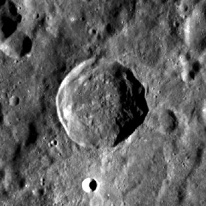 Dirichlet crater LROC image